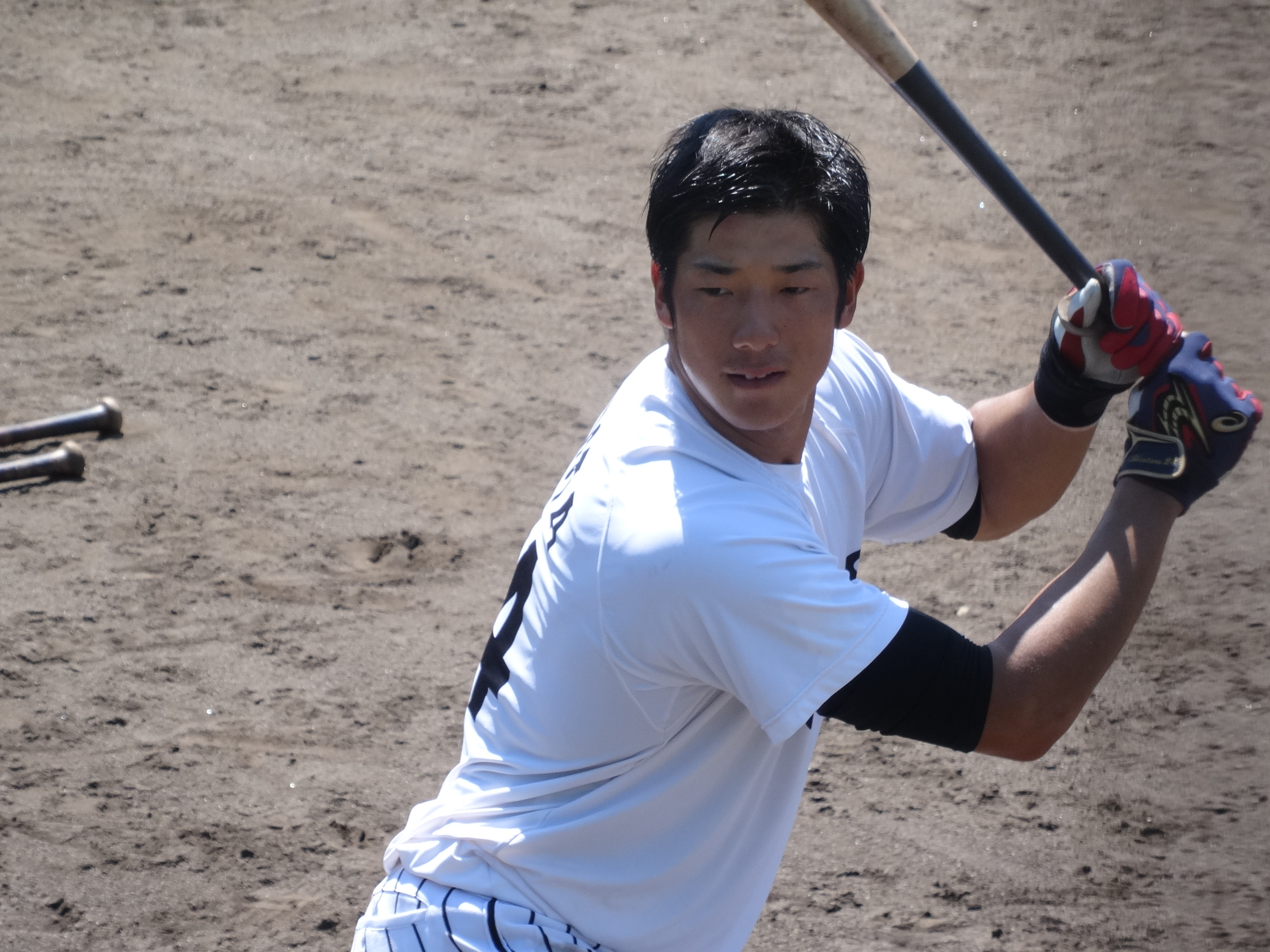 Shintaro Yokota, outfielder of the Hanshin Tigers, at Hanshin Naruohama Baseball Ground